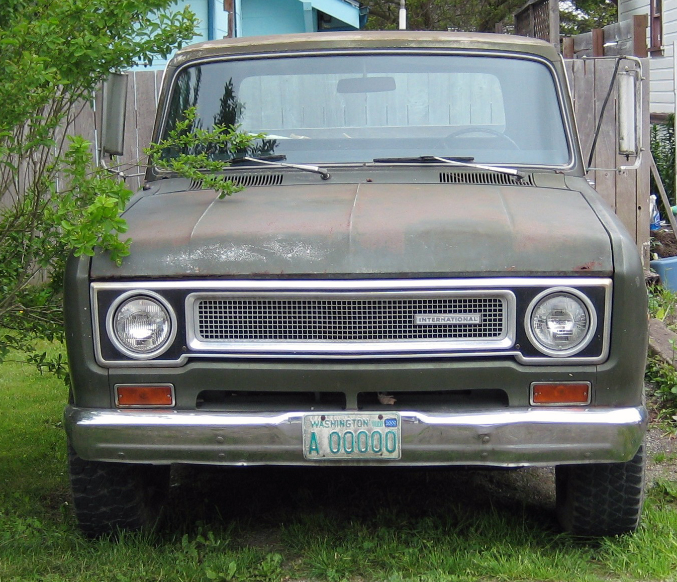 1971 International Harvester pickup, 1010-1310 range